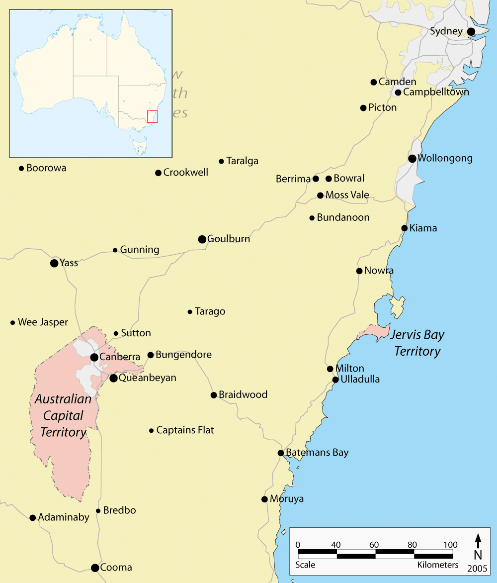 Map of the ACT and Jervis Bay relative to Sydney - Drawn by Martyman in illustrator from various sources - Released under the GFDL